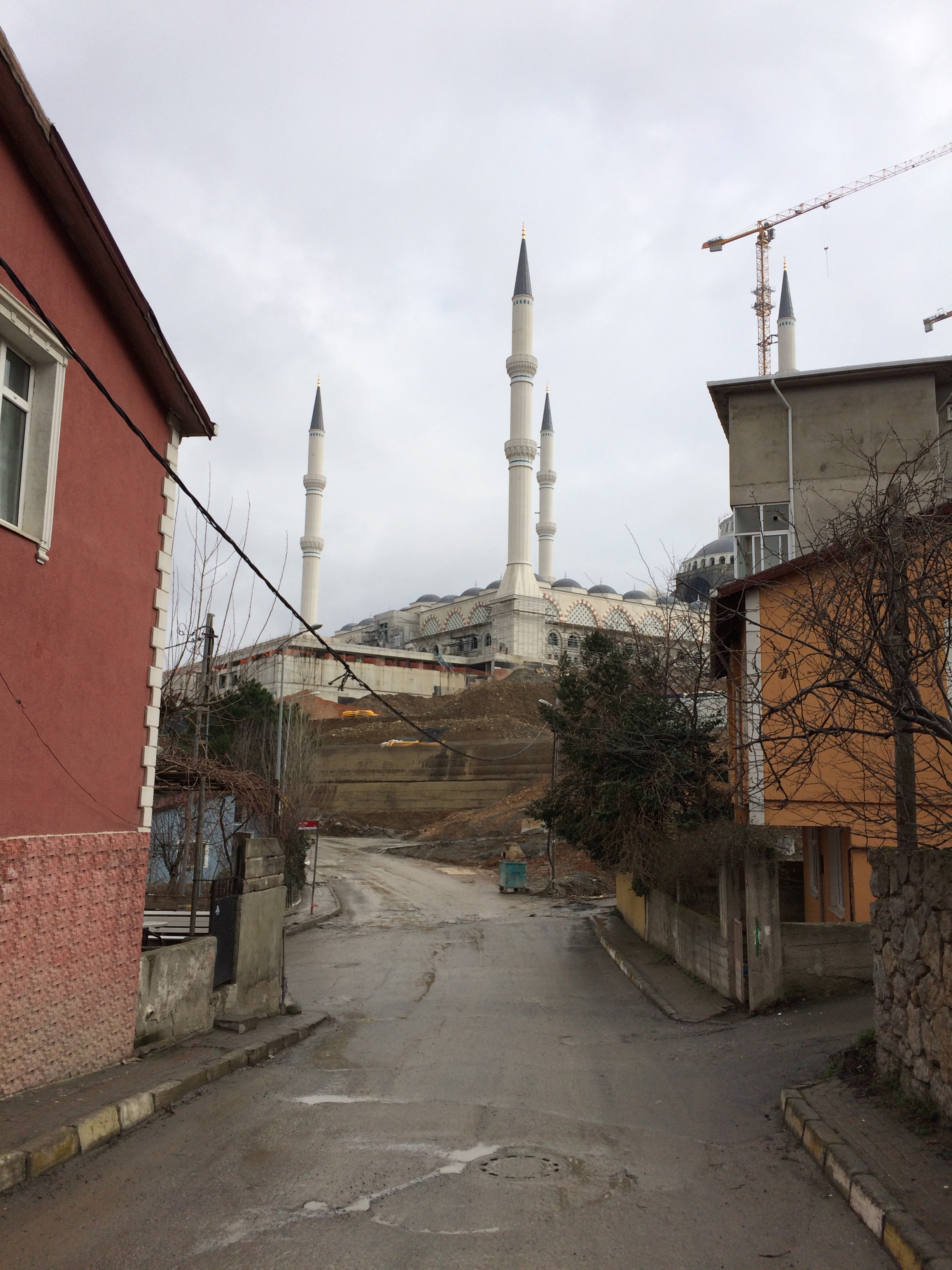 Çamlıca Mosque, construction Feb 2017